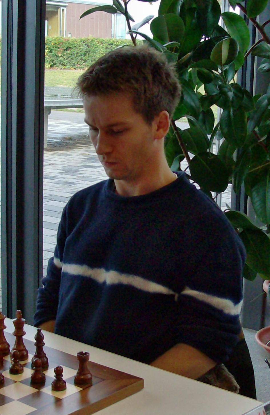 Andrei Volokitin, chess grandmaster